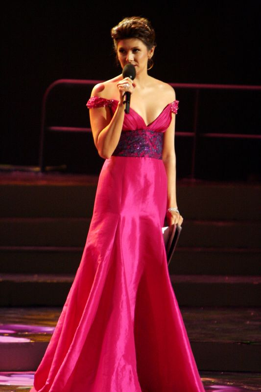 Charlene Gonzales hosting the Binibining Pilipinas Beauty Pageant 2008